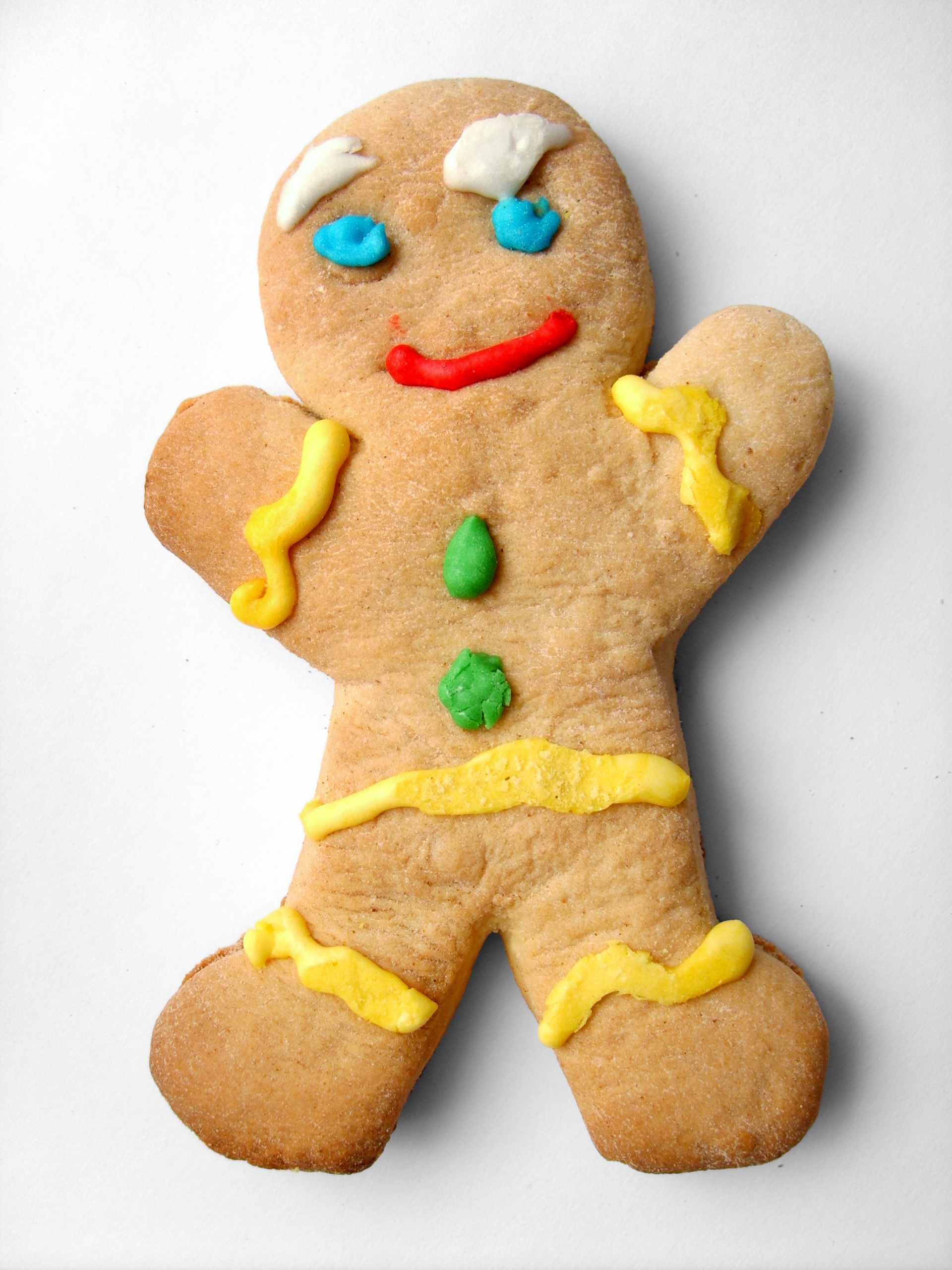 A cookie similar to "Gingerbread Man" character from the Shrek movie series.